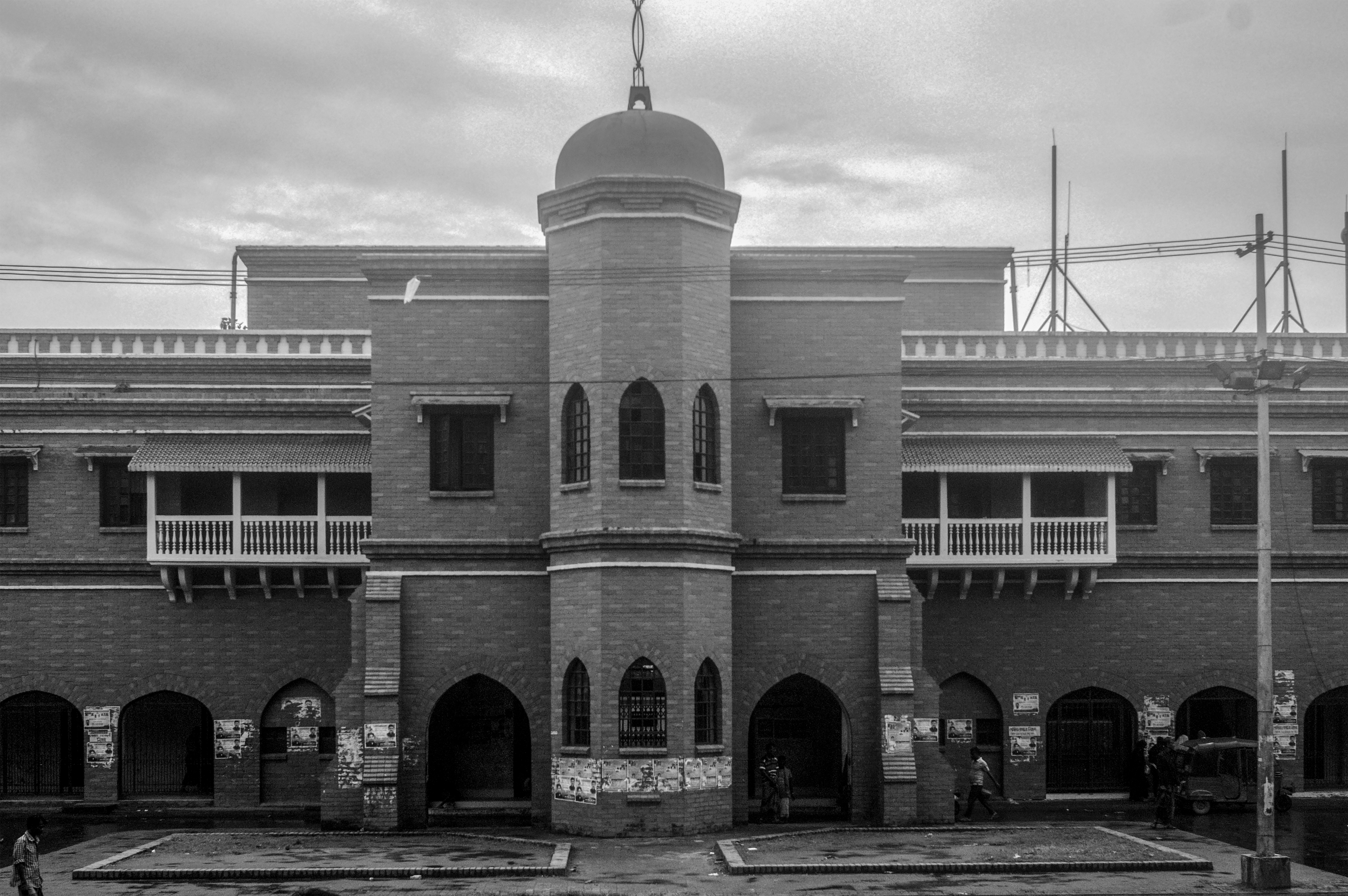 Battali Railway Station